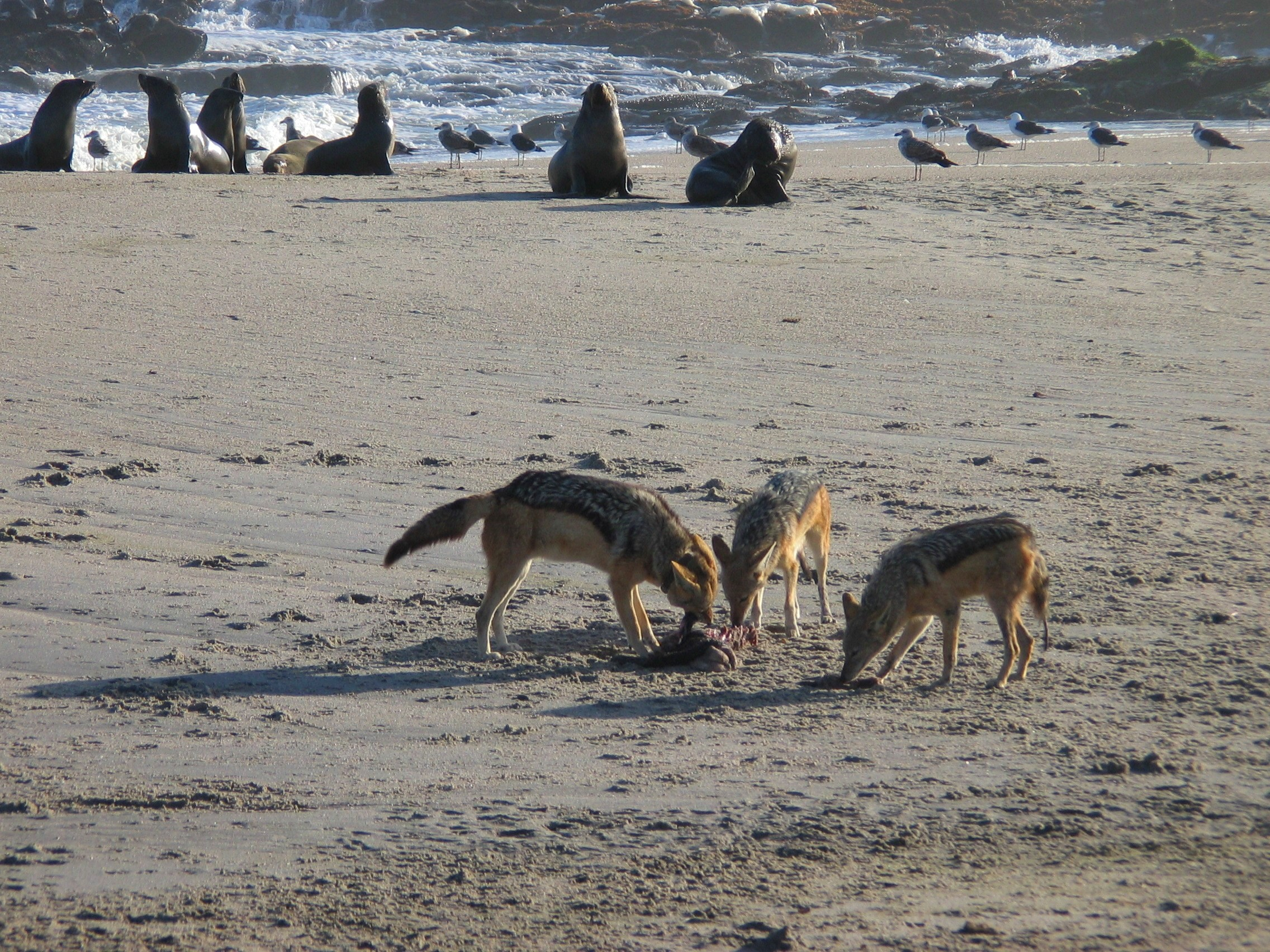 Black backed jackal